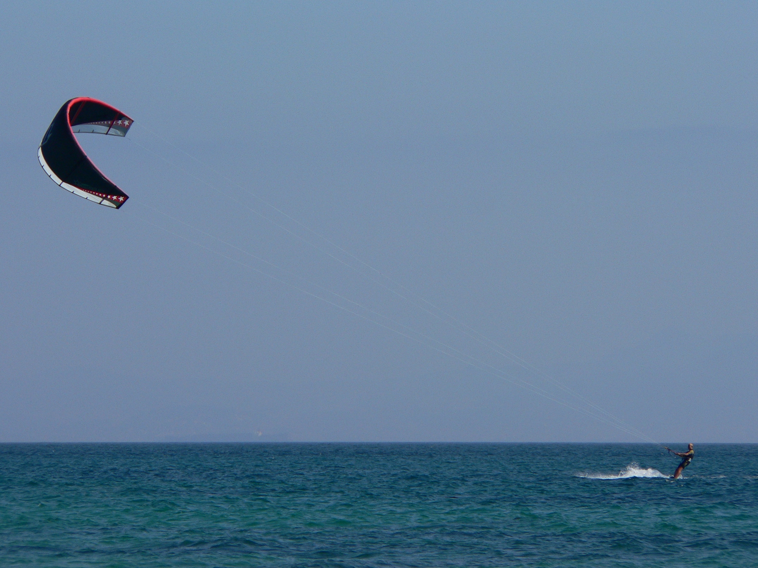 Description: Kitesurf Subject: Kitesurfing Beach : Punta Paloma City : Tarifa Country : Spain Photographer: © Manuel González Olaechea y Franco Shot date : August, 26th, 2005